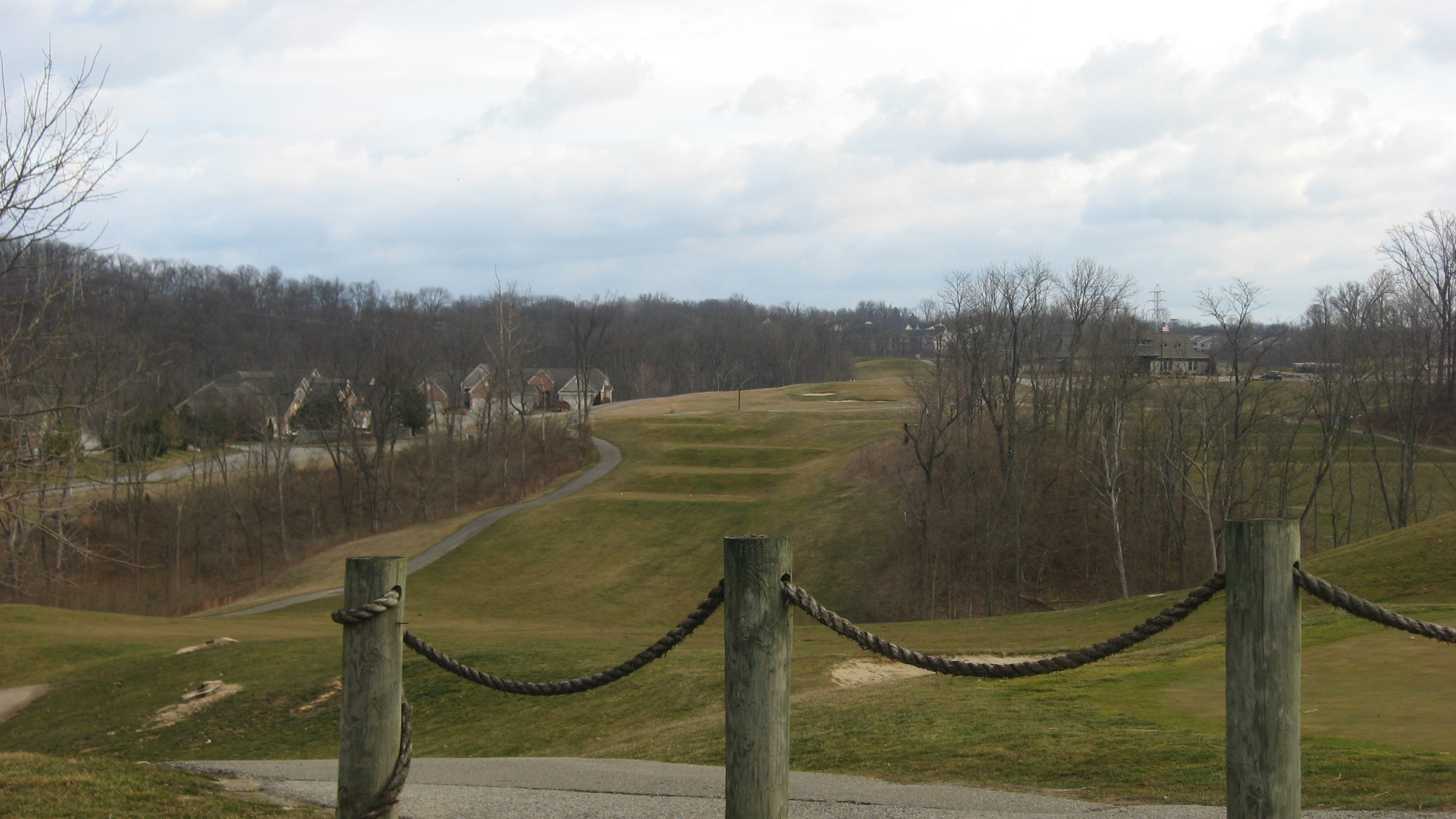 Fairways at the Aston Oaks Golf Course, located along Aston Oaks Drive on the eastern edge of North Bend, Ohio, United States. The course was developed from the grounds of the John Aston Warder House, which still stands on the course; the house is listed on the National Register of Historic Places, and the golf course contributes to the designation.